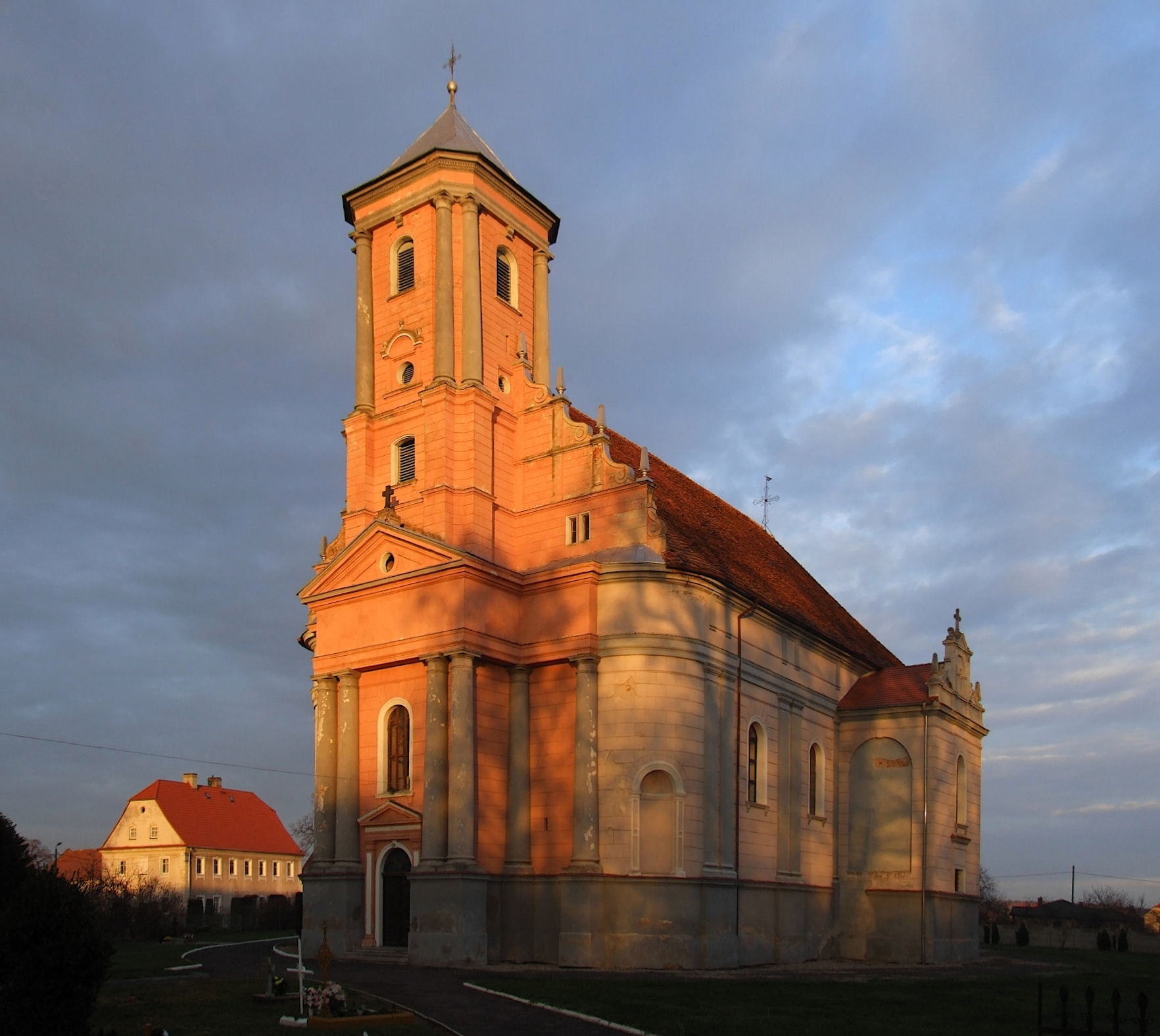 Holy Cross parish church in Kopice, Poland